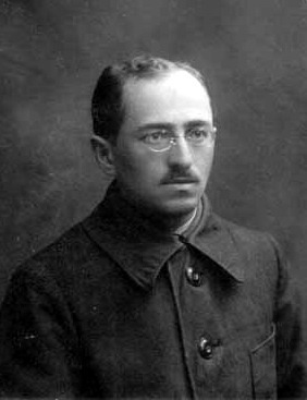 Branislaw Tarashkyevich - Belarusian social activist, linguist, translator, literary critic.